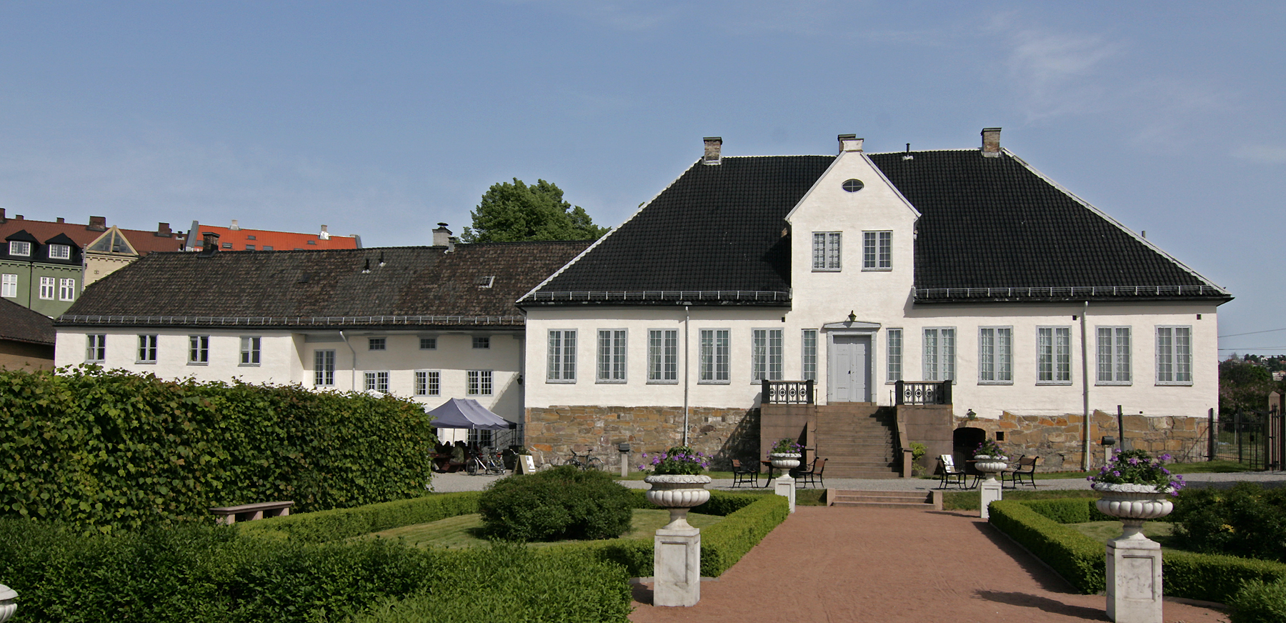 Oslo ladegård, Oslo. Built 1725 upon medieval vaults. Listed building.